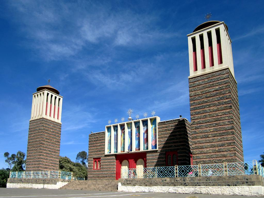 Enda Mariam Orthodox Cathedral (1938) stands on the original site of the Four Villages (Arbate Asmere) which gave Asmara its name.